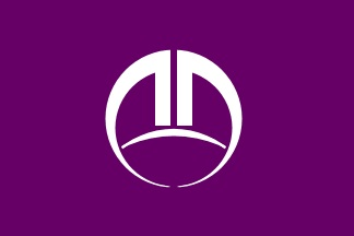 Flag of Fujioka Gunma